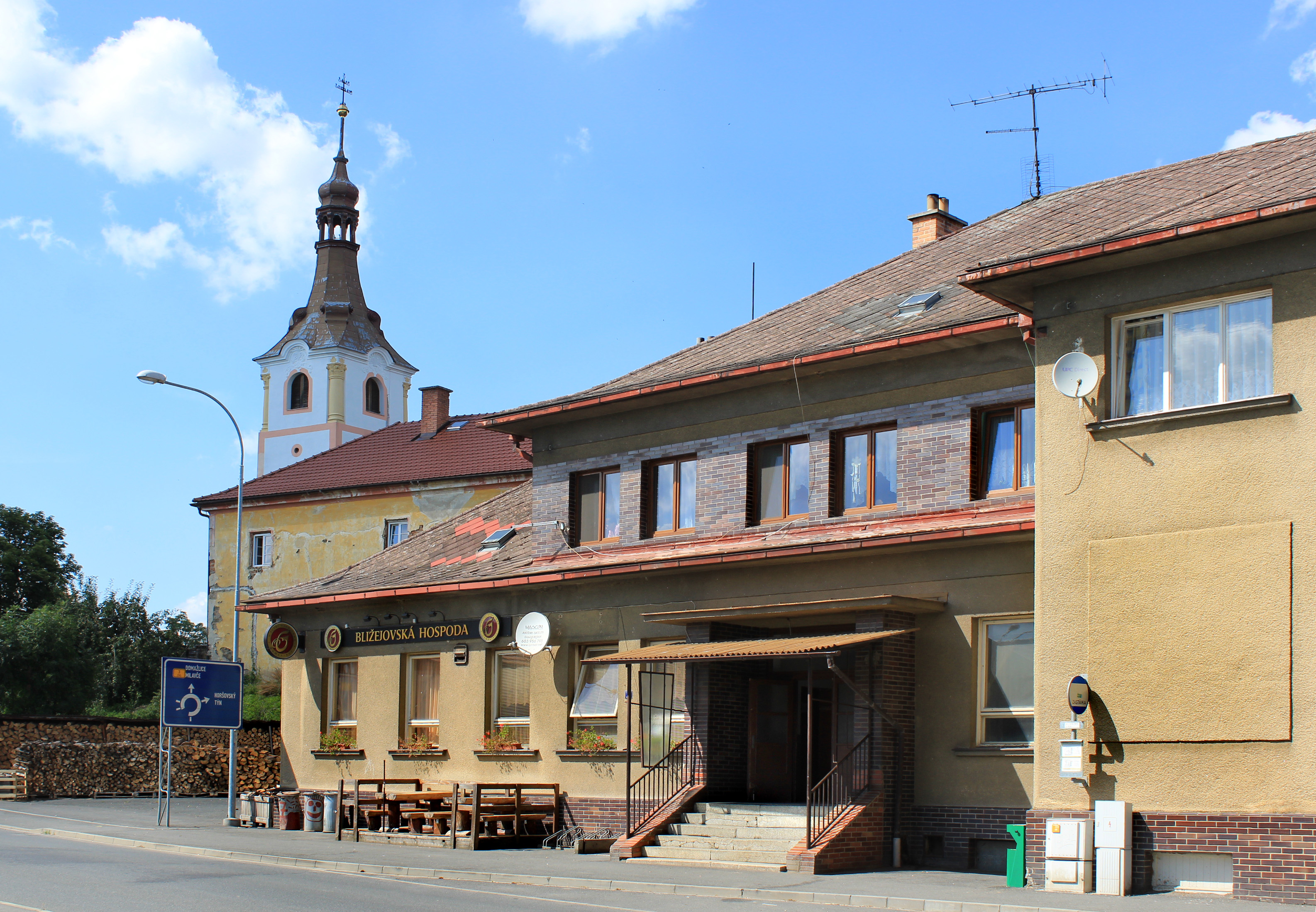 Restaurant in Blížejov, Czech Republic.